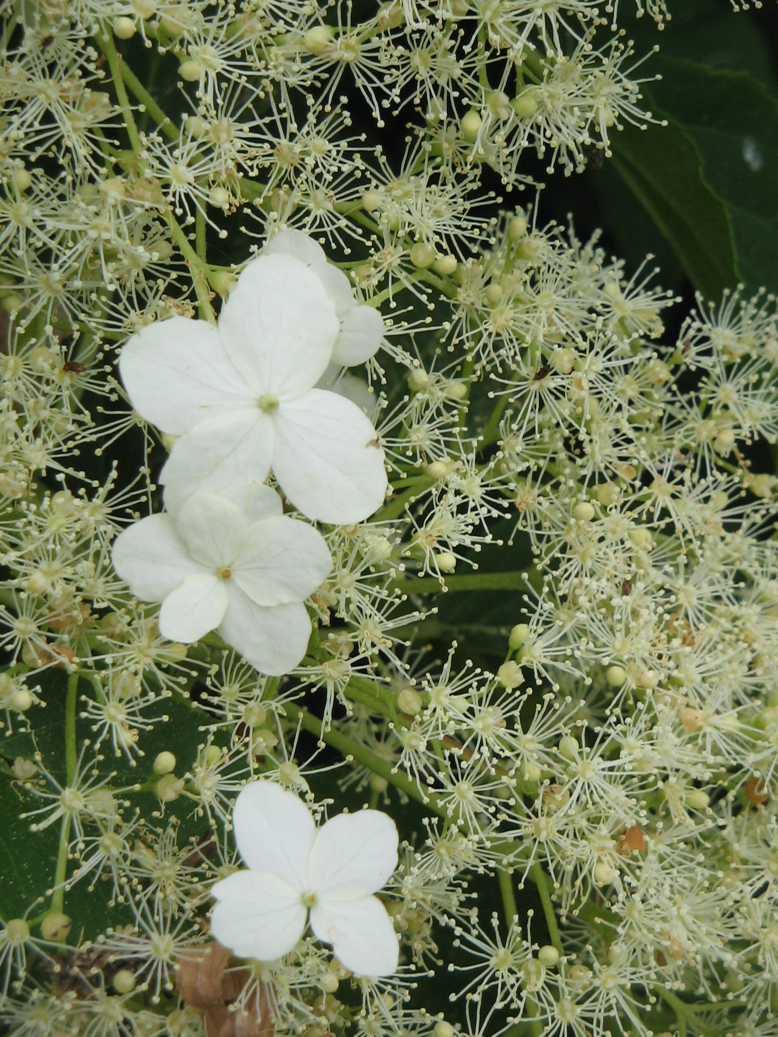 Hydrangea petiolaris — (synonym: Hydrangea anomala subsp. petiolaris). Blossom close-up. The northeast Asian species of Climbing Hydrangea.